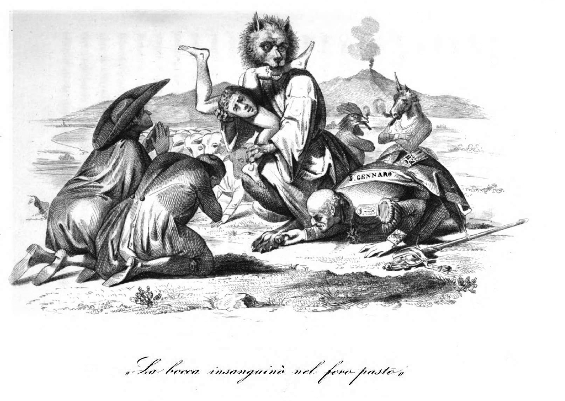 Satiric allegoric print showing the repression of Sicily rebellion by Neapolitan government at end of 1848 rebellion